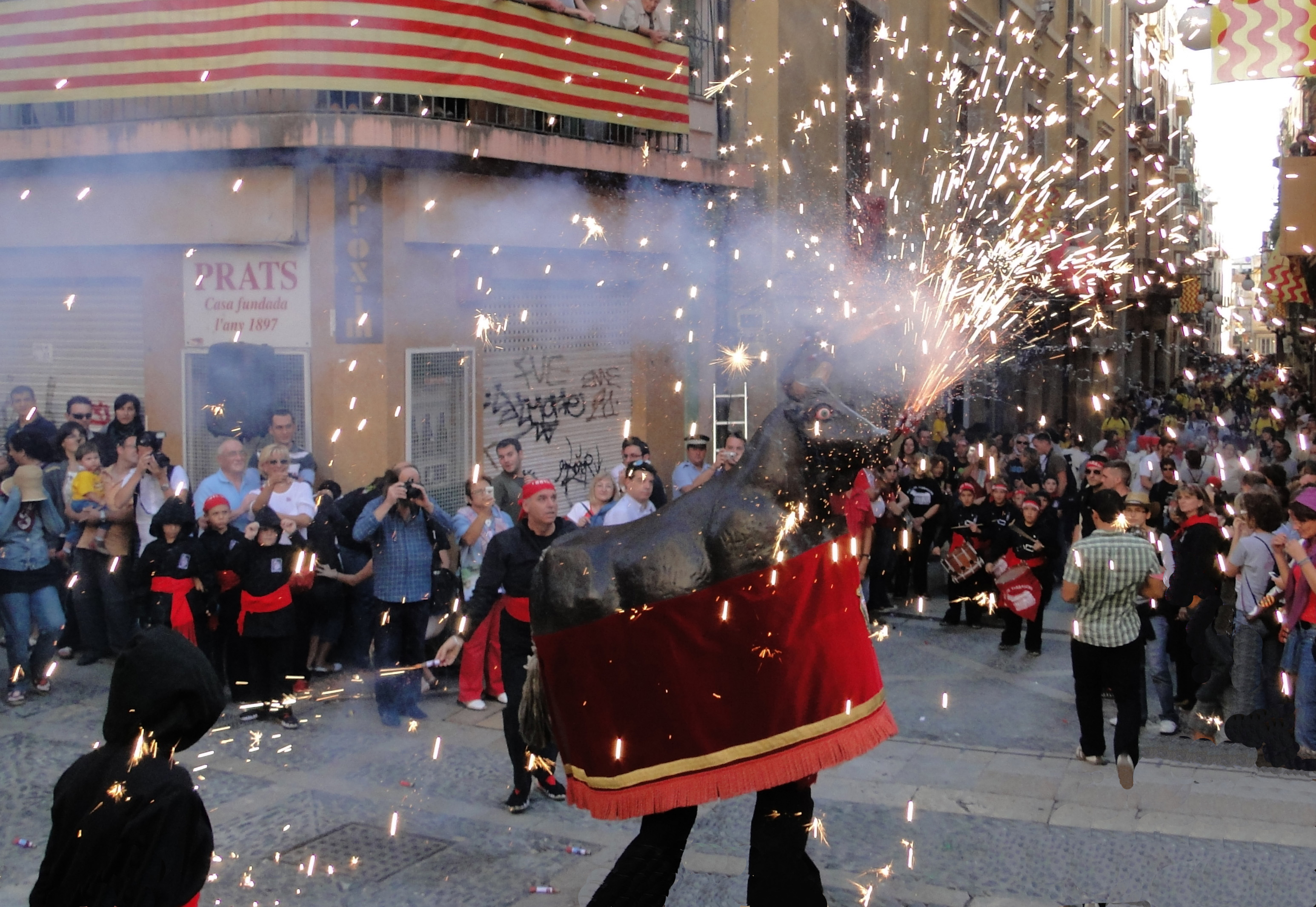 Bou de Tarragona at Santa Tecla Festival, Tarragona, Spain